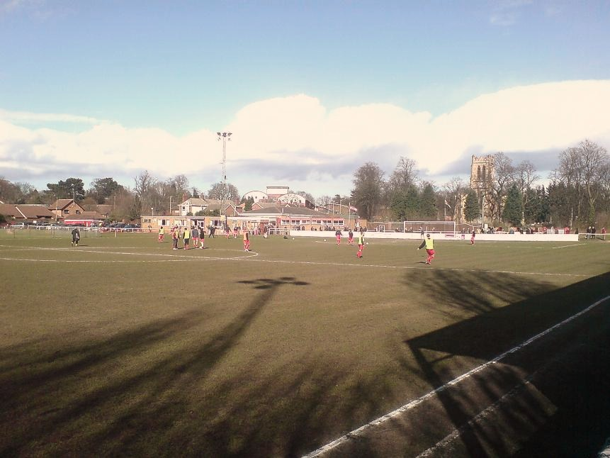 A photo of the War Memorial Athletic Ground, home of Stourbridge F.C., in Stourbridge, England. Taken by cls14 on 24/03/2008